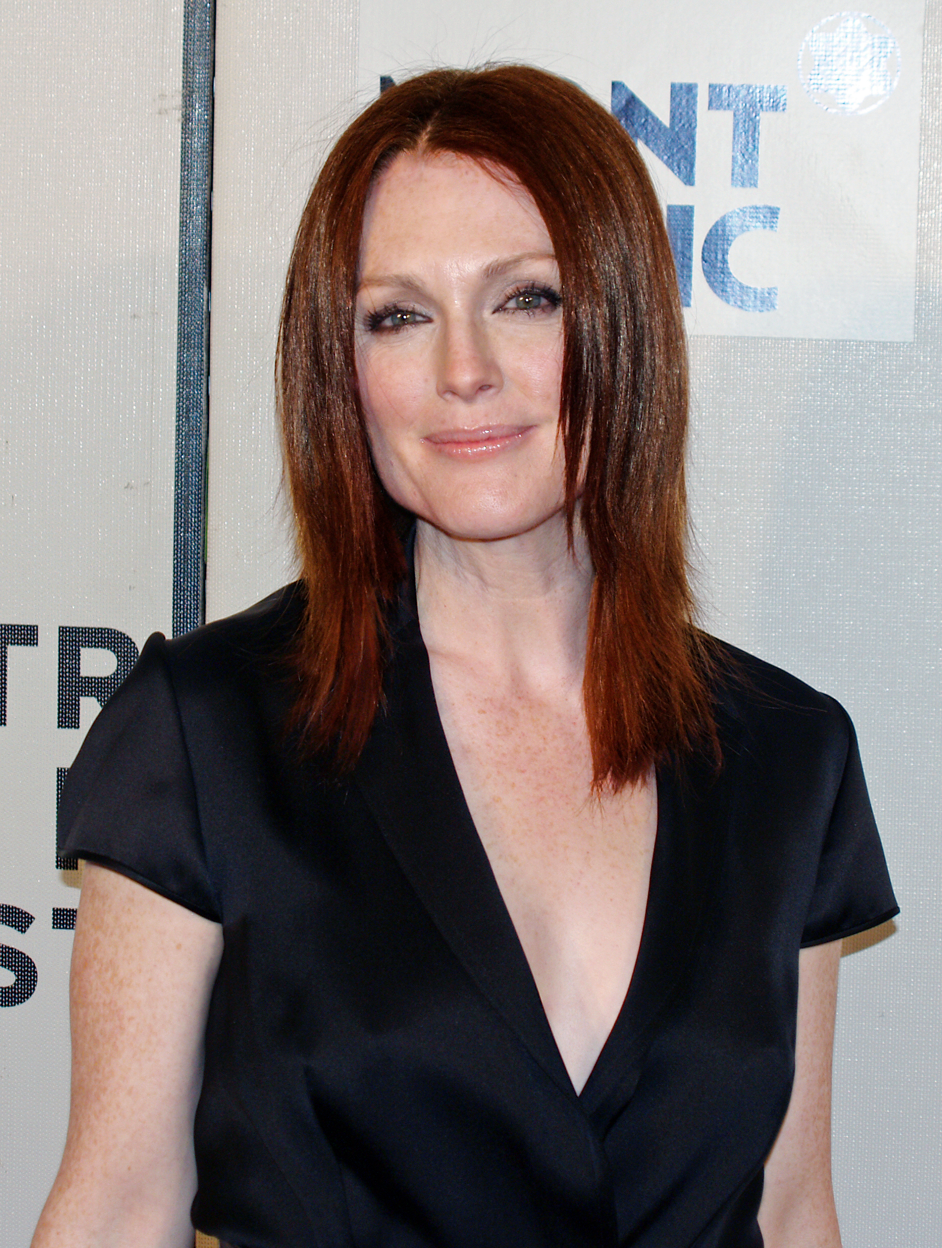 Julianne Moore at the premiere of Savage Grace at the 2008 Tribeca Film Festival. The photographer dedicates this portrait to Wikipedia editor Alison, who has vastly improved Wikipedia almost from its inception.